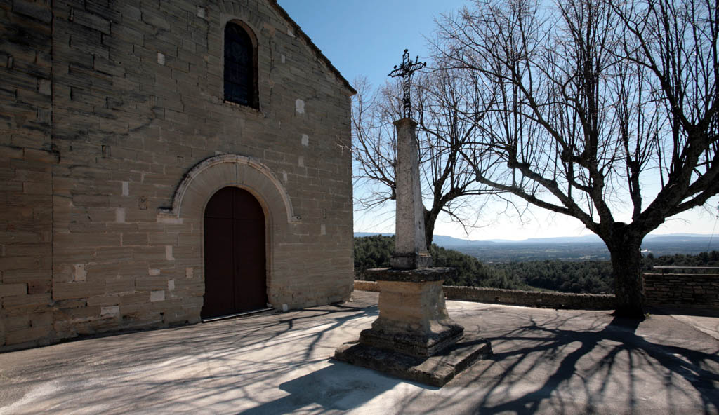 Village of Saumane, France